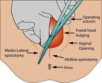 Medio-lateral episiotomy illustration. Created 1/9/2005 in Adobe Illustrator by Jeremy Kemp. Based on elements of an illustration at and a photo found on .